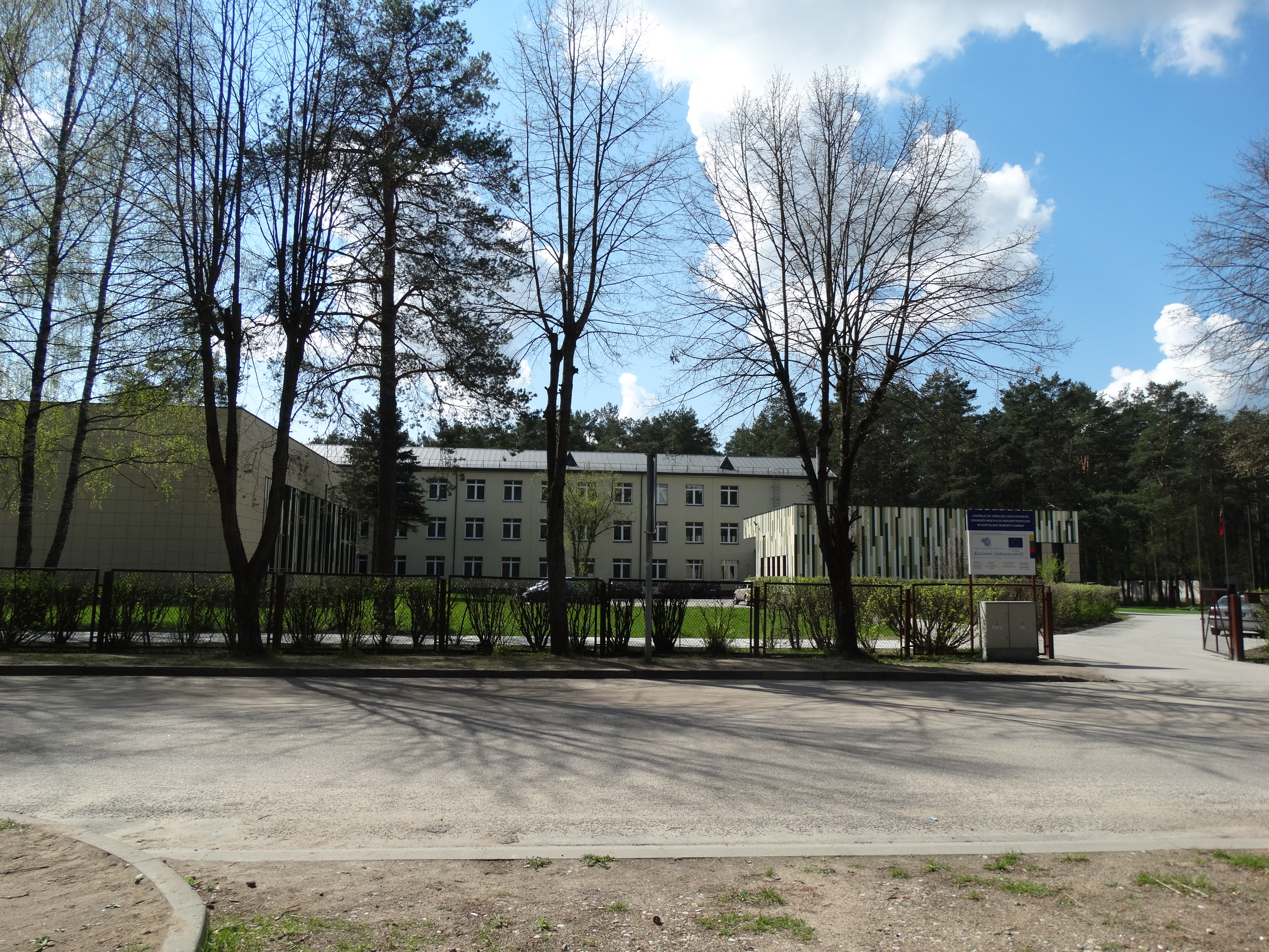 St. Urszula Ledóchowska Gymnasium in Juodšiliai, Vilnius District, Lithuania